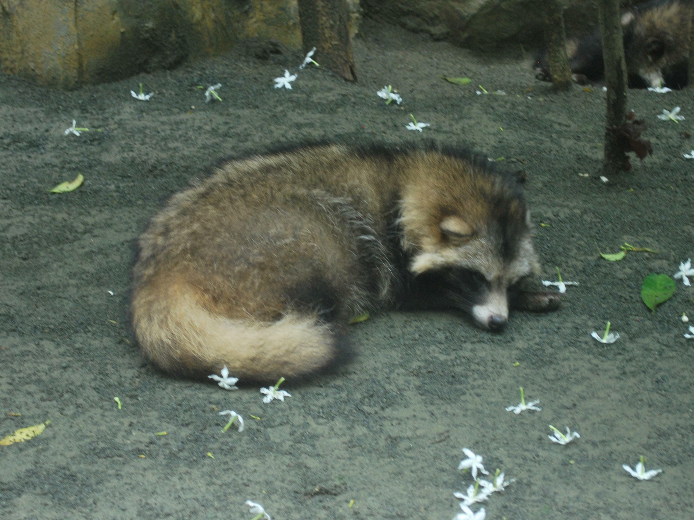 In captivity